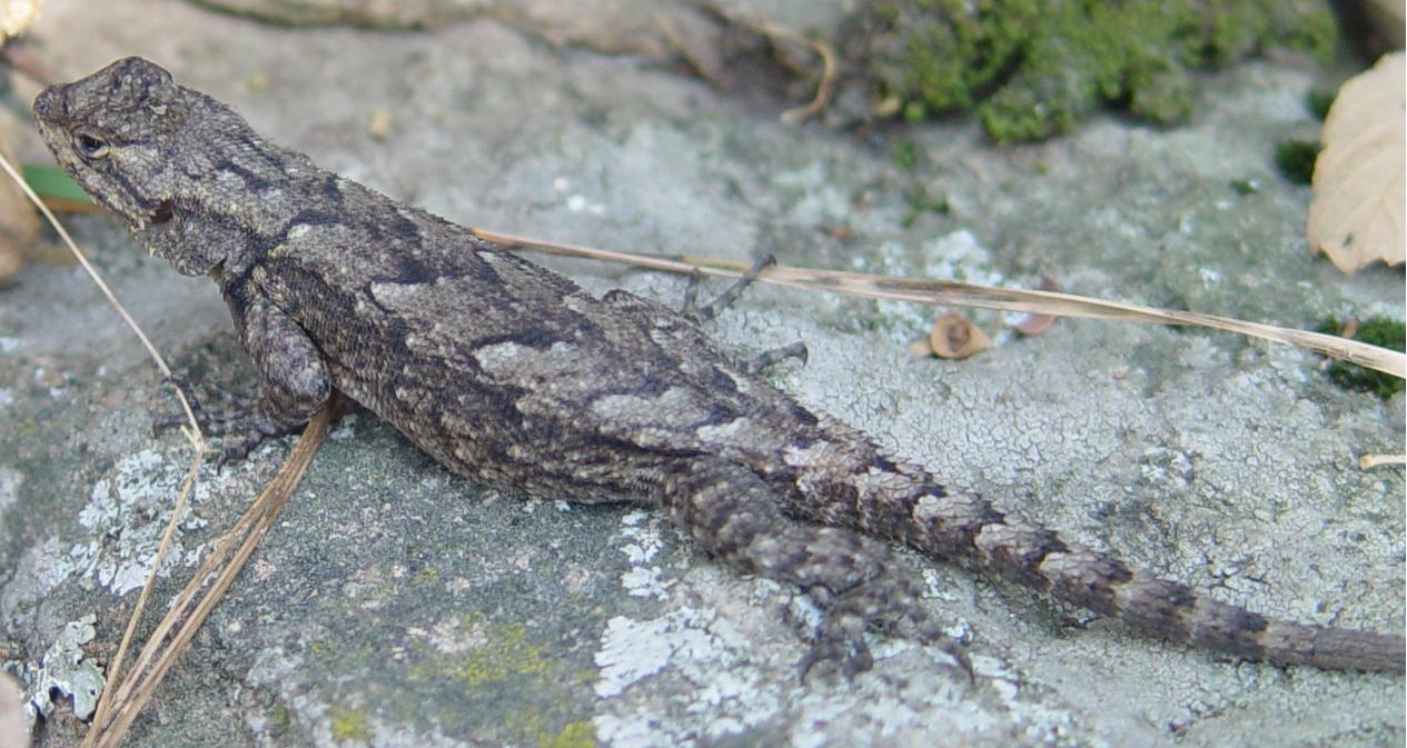 S. grammicus hembra